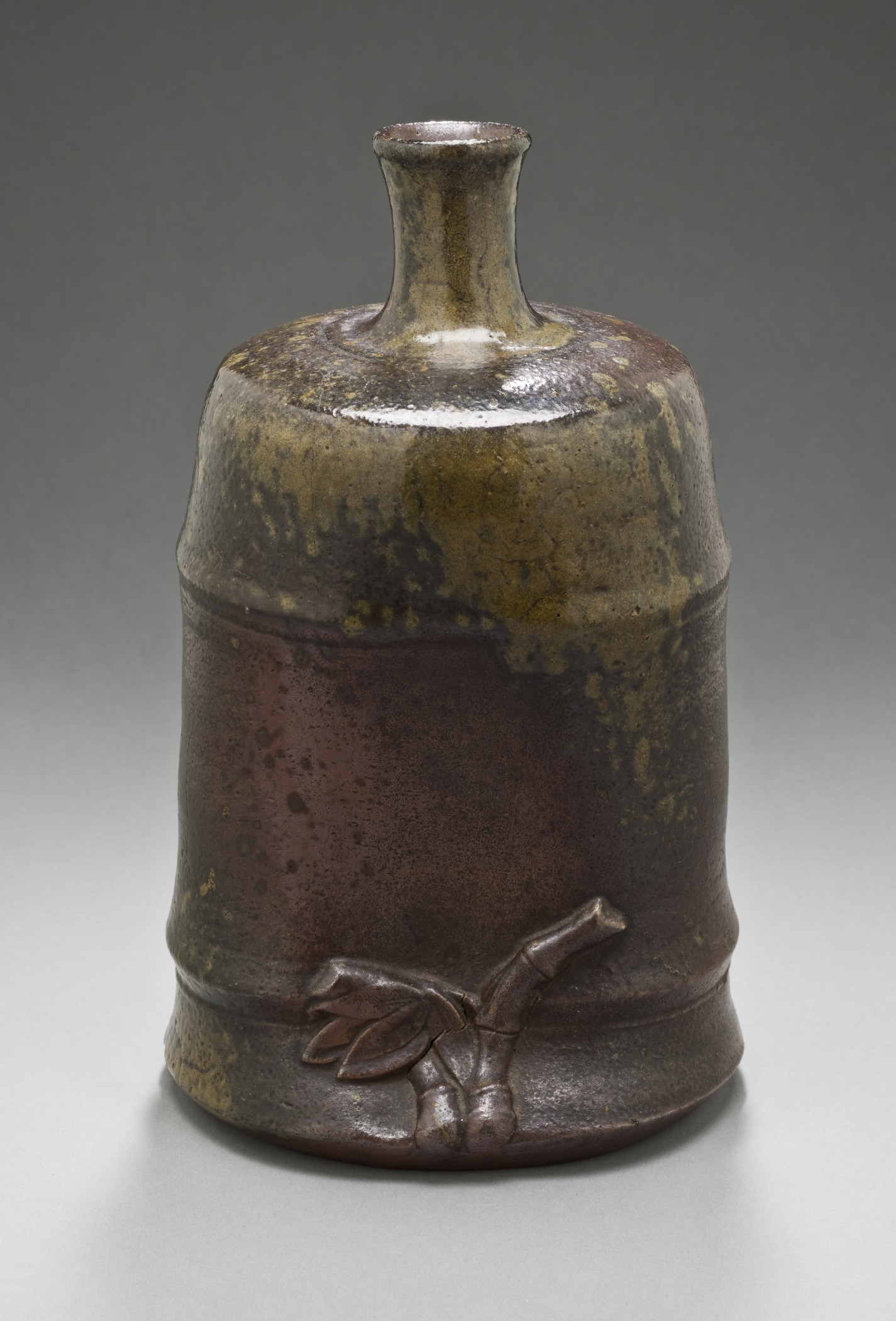 Japan, Edo period (1615-1868), 18th century Alternate Title: Tokkuri Furnishings; Accessories Bizen ware; stoneware with naturally occurring ash glaze Gift of James D. and Veronica H. Roorda (M.2006.214.40) Japanese Art